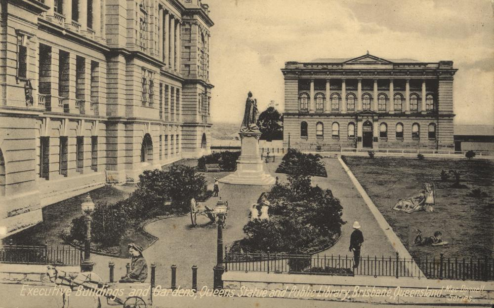 Executive Buildings and gardens, statue of Queen Victoria and Public Library, Brisbane, ca. 1910. Part of the Raphael Tuck & Sons Collotype postcard series.